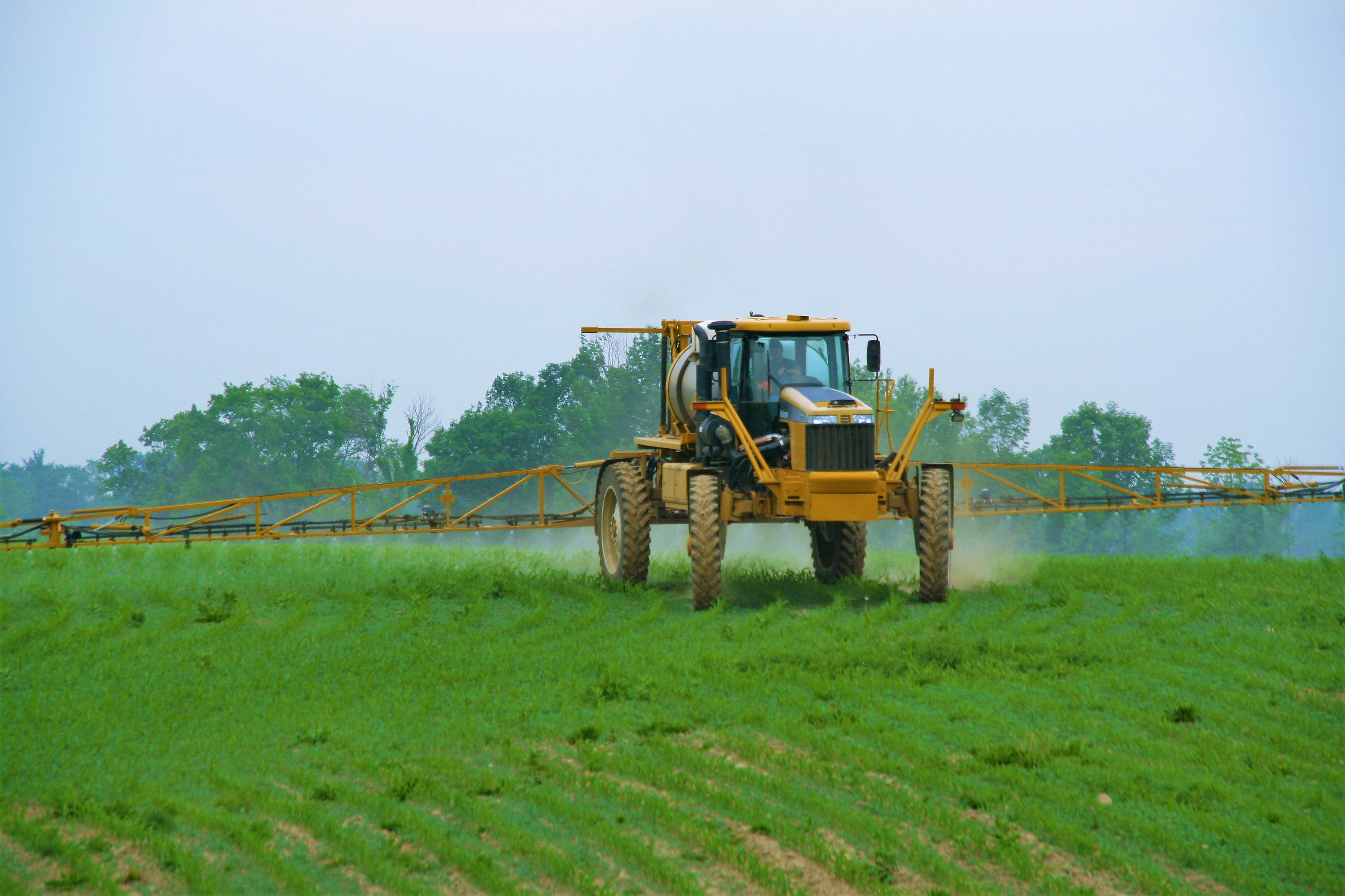 A 2007 RoGator 1264 Liquid Sprayer applying pesticide to a corn field. Picture taken in Ontario, Canada. The sprayer has a 90' boom and a 350HP Caterpillar engine.